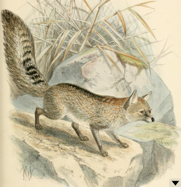 Engraving of a Blandford's fox by J. G. Keulemans